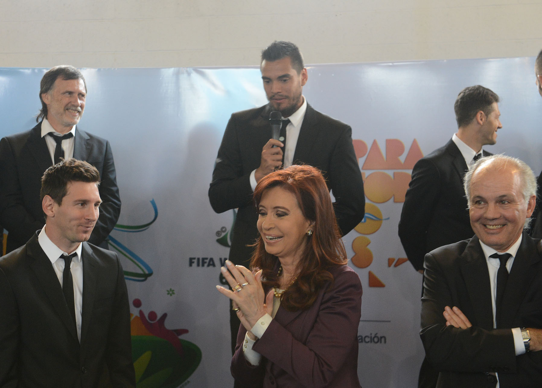 President Cristina Fernandez greets the staff of the Argentina National Team, second in the world Brasil 2014, staff and leaders of AFA.